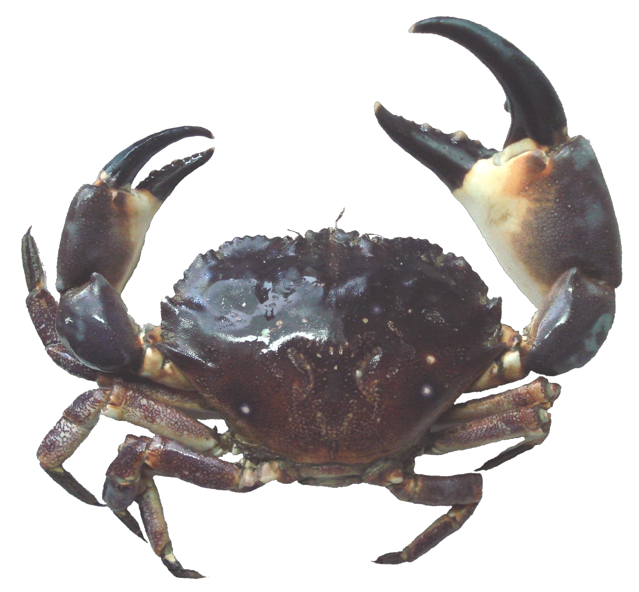 Purple stone crab, Platyxanthus crenulatus (big adult male, carapace width ~90mm )